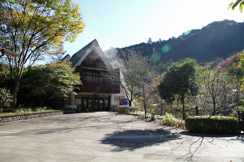 Yuuyake Koyake Fureainosato, Hachioji, Tokyo, Japan